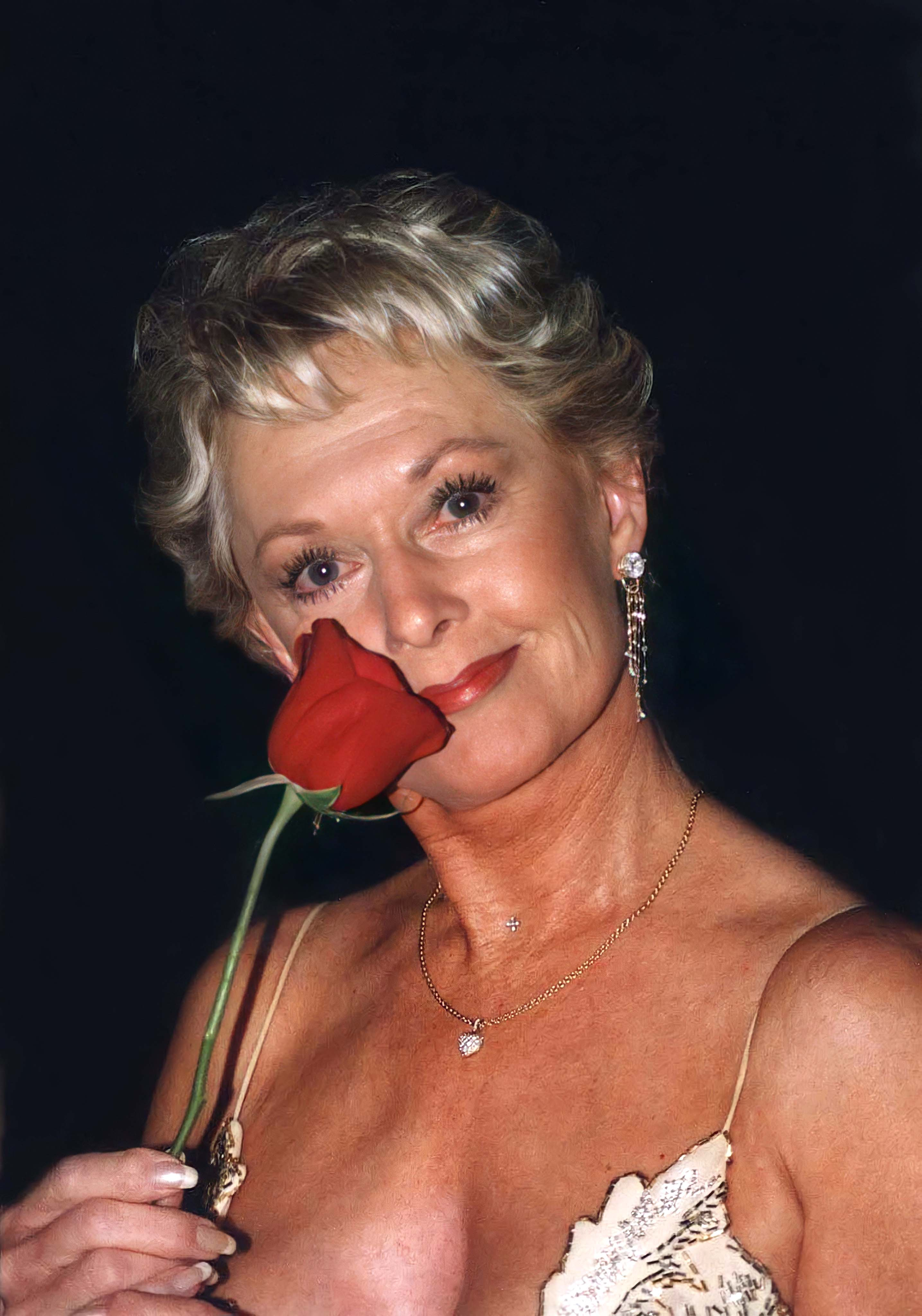 Larry King cardiac fundraiser April 12, 2002 Wash. D.C. © copyright JohnMathewSmith